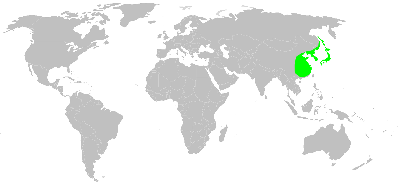 natural world distribution of Cercidiphyllum japonicum, according to the book "Plant" (2005) ISBN 075660589X